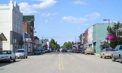 Mainstreet of Carberry, Manitoba, Canada in 2007.